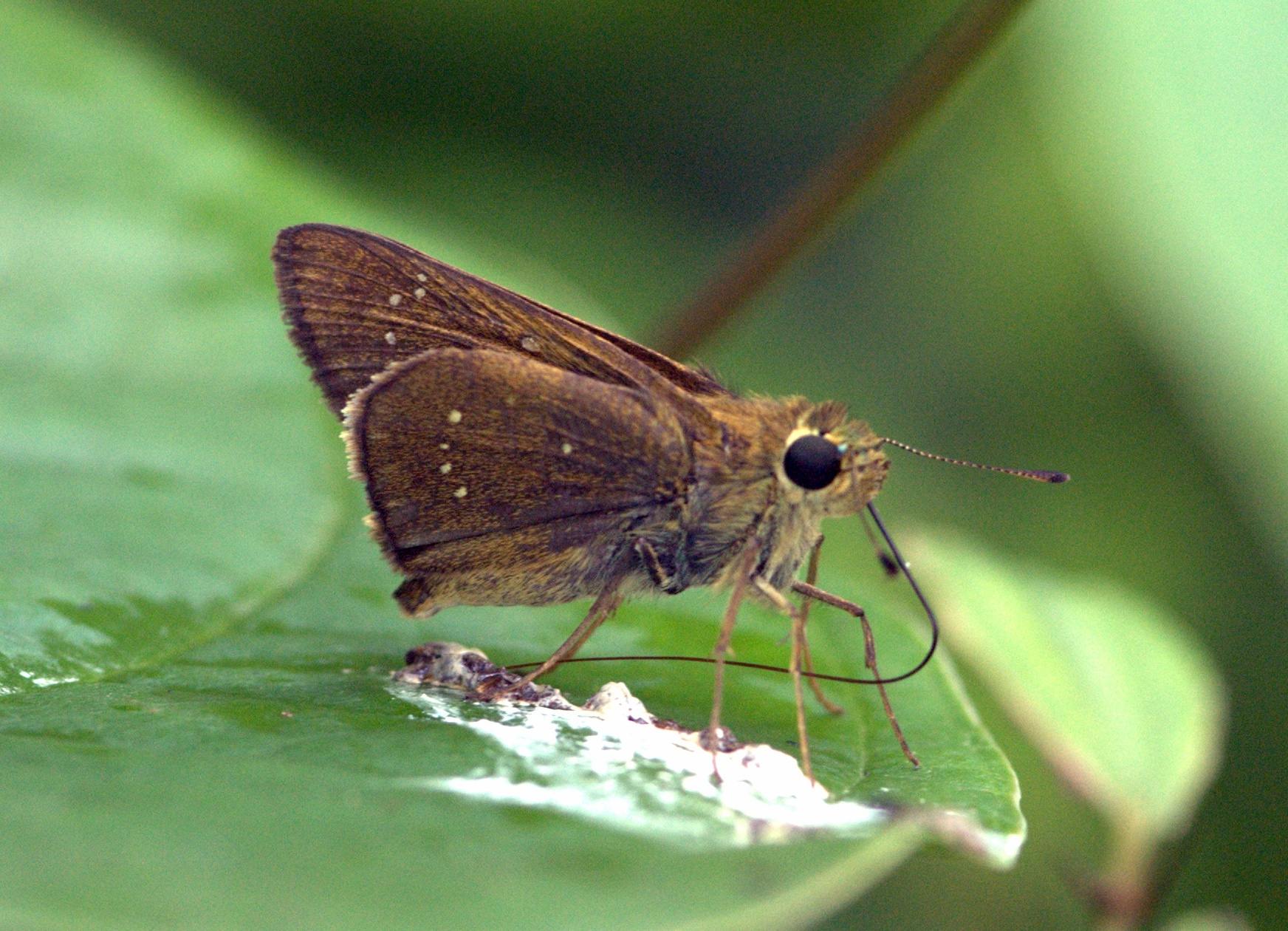 Pelopidas agna (Dark Branded Swift)